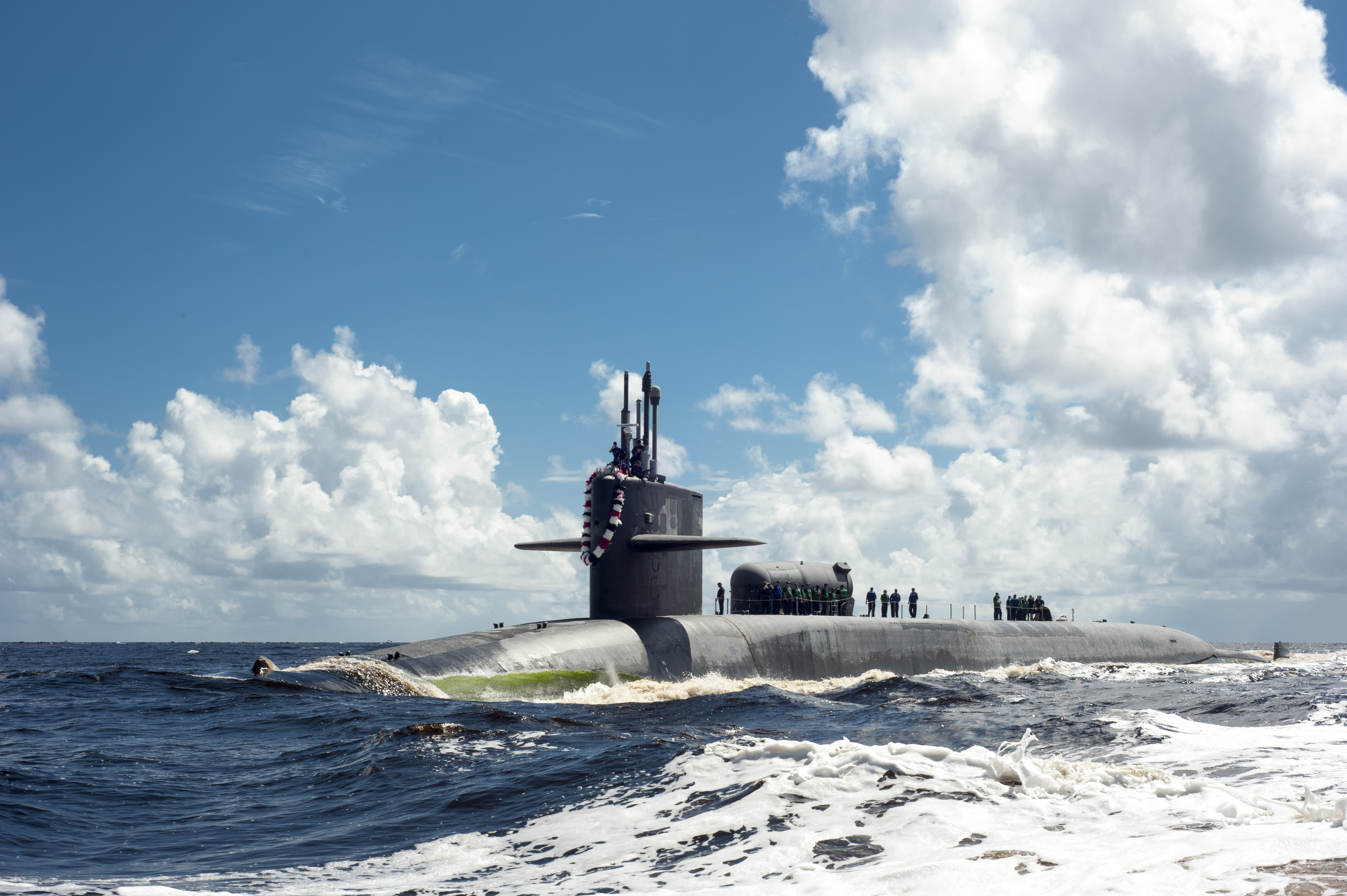 FERNANDINA BEACH, Fla. (July 15, 2012) The Ohio-class guided-missile submarine USS Georgia (SSGN 729) transits the Saint Marys River. Georgia returned to Kings Bay after more than a year forward deployed.